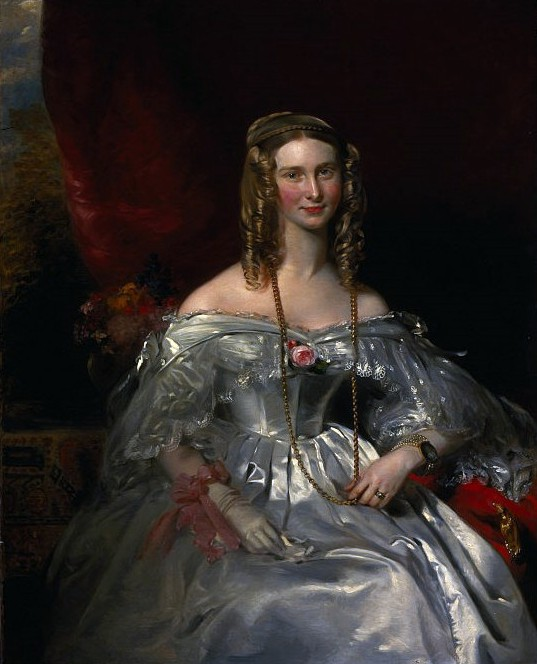 Hannah Fry, Mrs Harris Prendergast (1814 - 1859), NG 2127. Hannah Mary Elizabeth Fry, daughter of the Reverend Thomas Fry and Henrietta Middleton, married London barrister Harris Prendergast